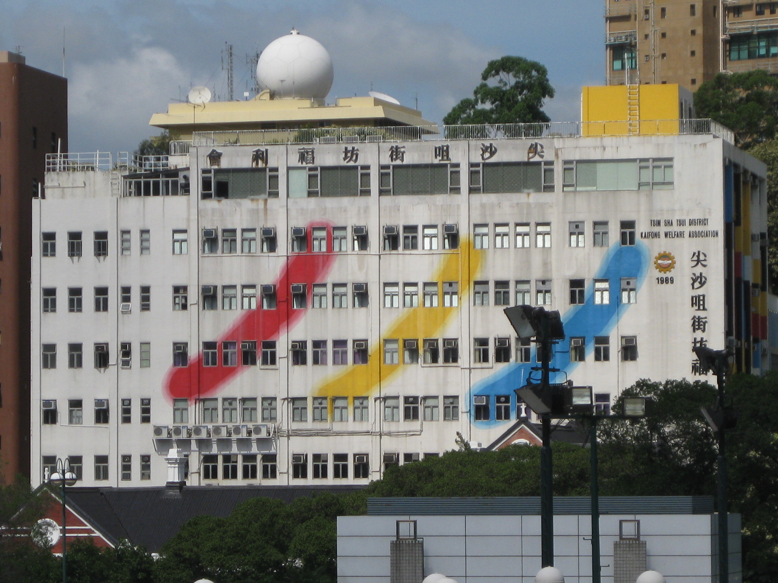 Tsim Sha Tsui District Kaifong Welfare Association Buiding